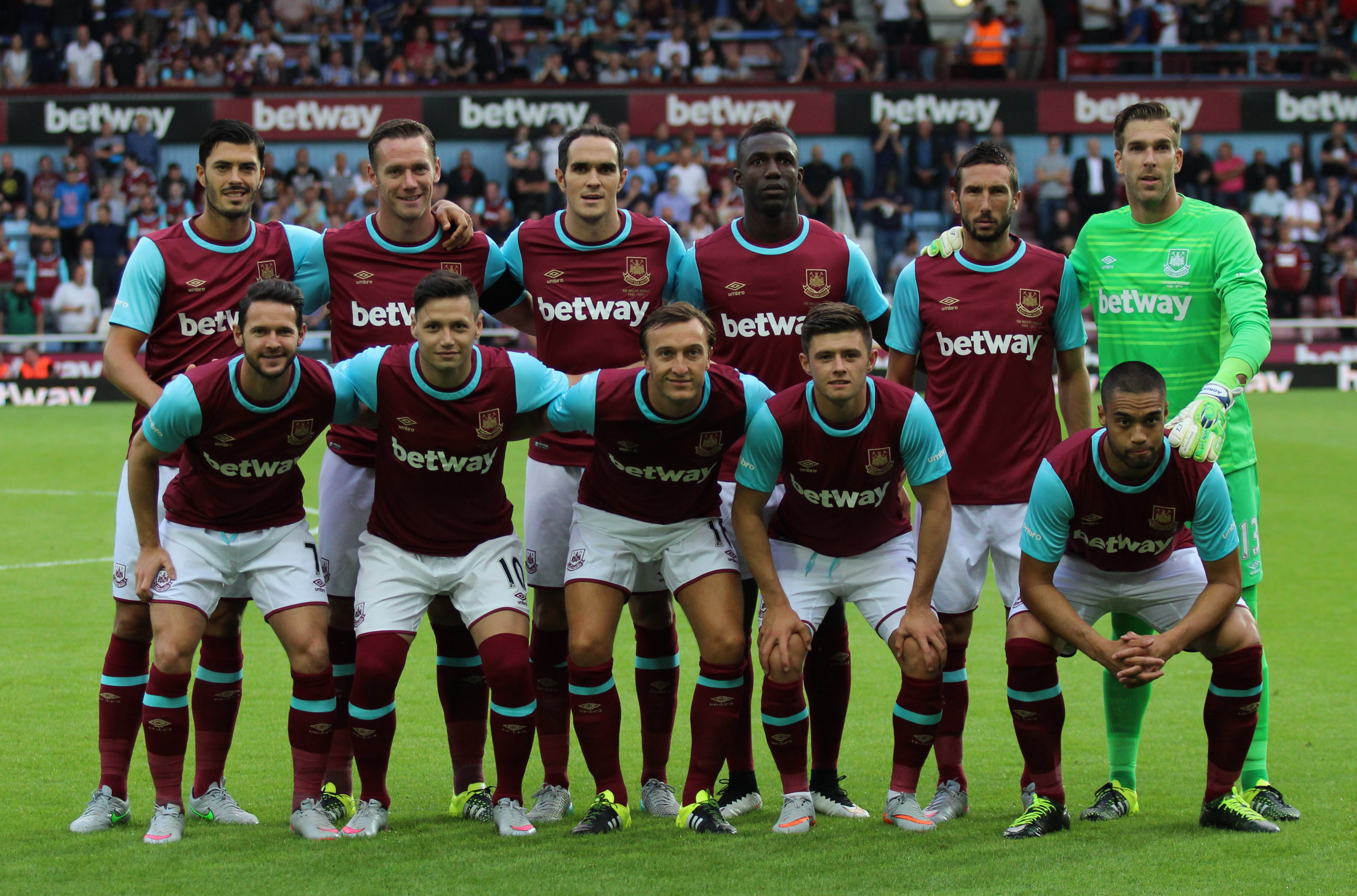 West Ham line up before the game against Birkirkara.